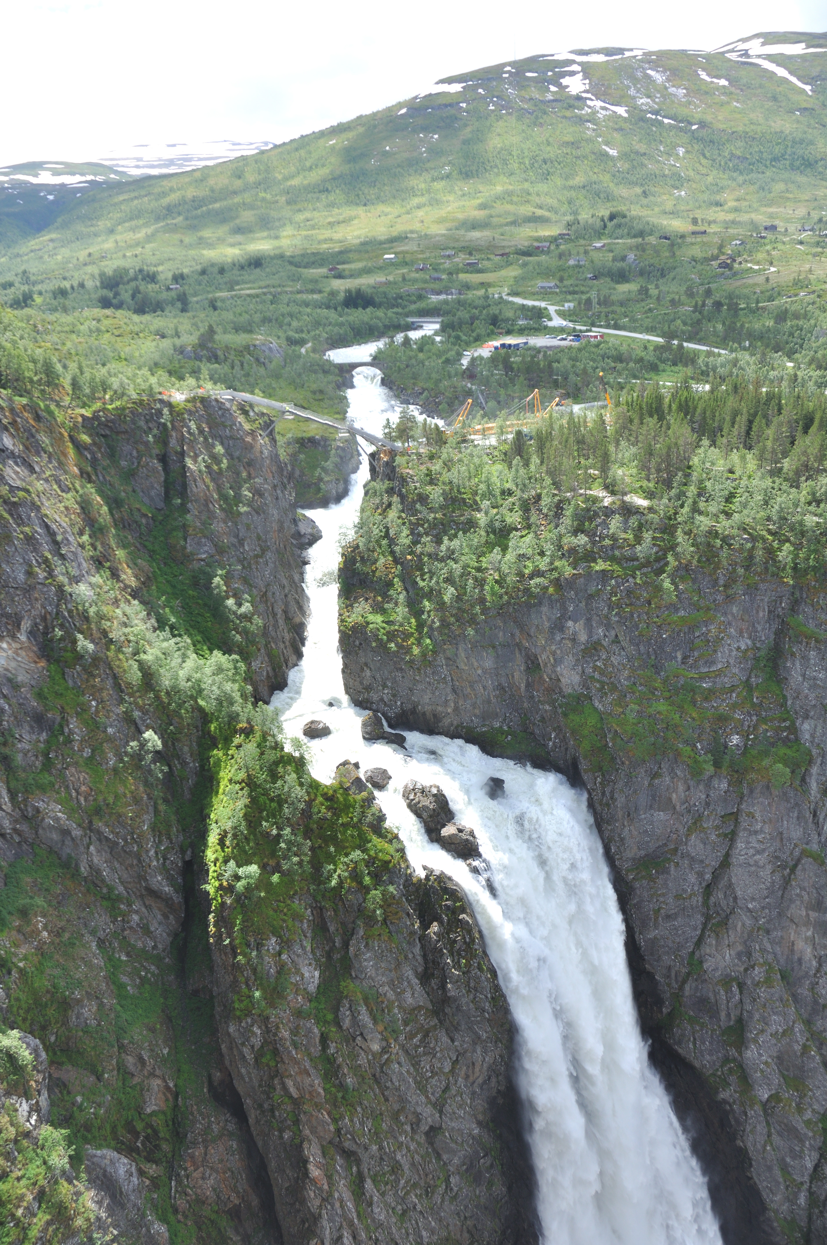 Vøringsfossen in 2020. Construction of pedestrian bridge and viewing platform across upper part of waterfall. Seen across the gorge from existing viewing platform.